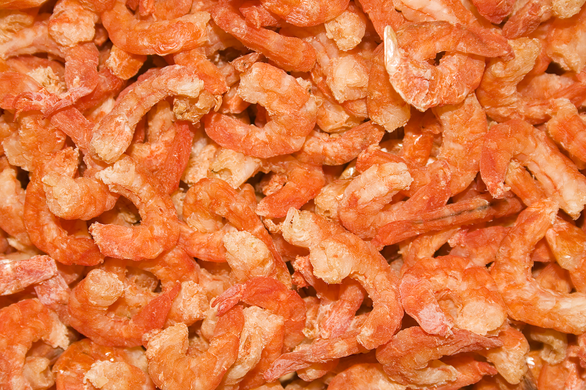 Dried shrimps.